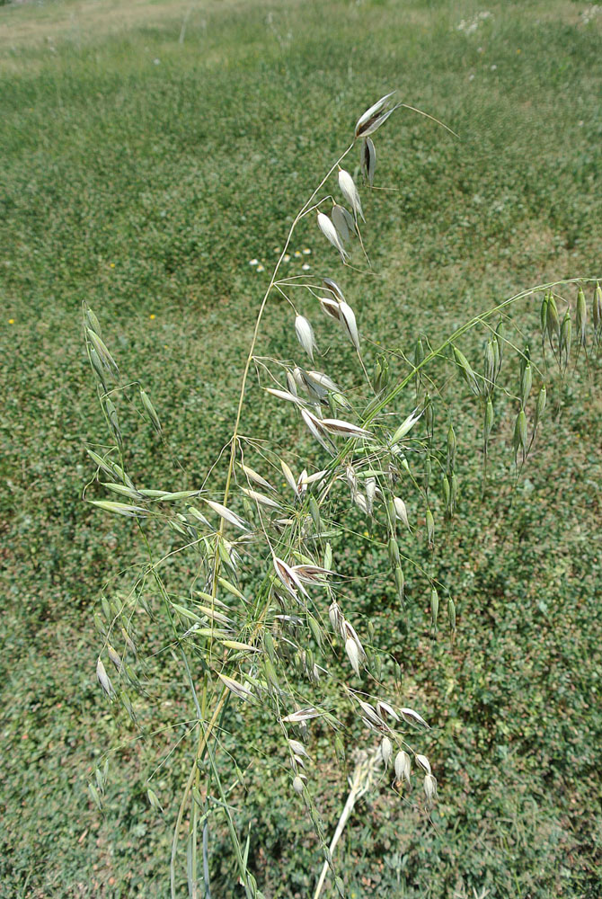 A major weed in temperate parts of the world. Known here in Chile as Avena Sylvestris.